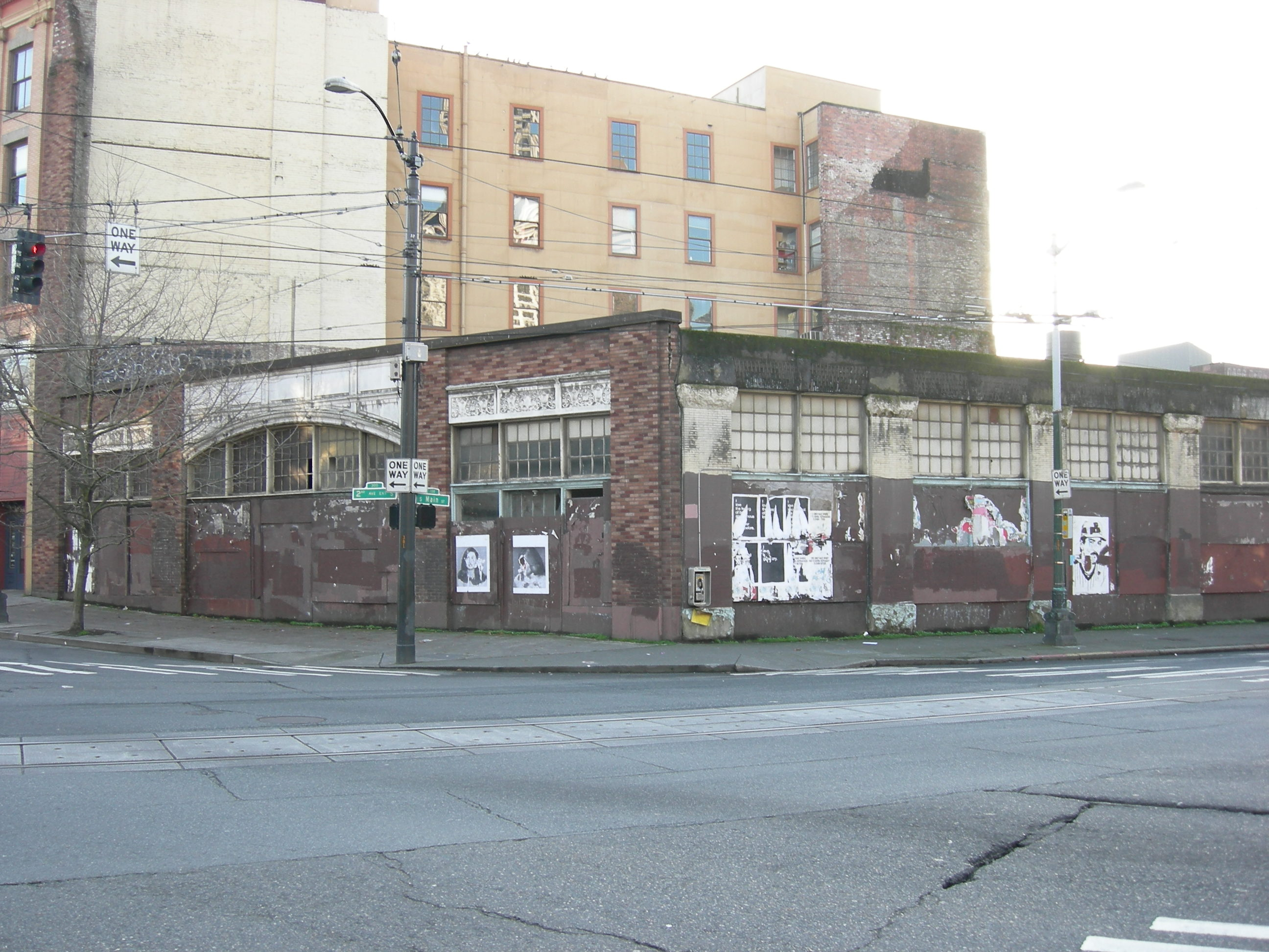 Cannery Building / Old Cannery Building, 213 S. Main St. in the Pioneer Square neighborhood, Seattle Washington. Also known as Cascade Laundry / Sportcraft Knitting Company / Cannery Workers ILWU Local 37 Union Building / Longshore Union Hall / The Old Cannery Workers ILWU Local 37 Union Building. On June 1, 1981, Silme Domingo and Gene Viernes of ILWU Local 37, both of whom were trying to reform the conditions for cannery workers in the Alaska fishing operations, and both of whom had actively opposed President Ferdinand Marcos of the Philippines, were gunned down there. The building dates from 1900, but the angled façade only dates from 1928–29, when Second Avenue Extension cut through the neighborhood. You see at left a remnant of when the Cannery Building had two more floors, lost after the 1949 Earthquake. For more about the building, see Summary for 213 S Main ST S / Parcel ID 5247800880, Seattle Department of Neighborhoods.